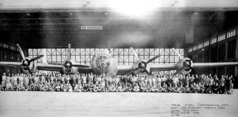 2753d Aircraft Storage Squadron in front of a B-29 at Pyote Army Airfield, 1945